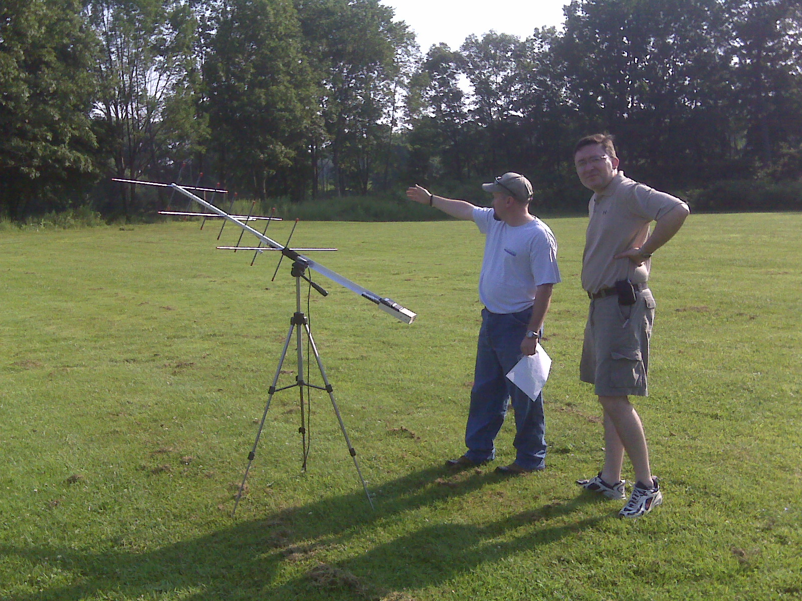 TJ, K2TJJ and Mike (who's call I forgot) survey the horizon for a satellite pass.